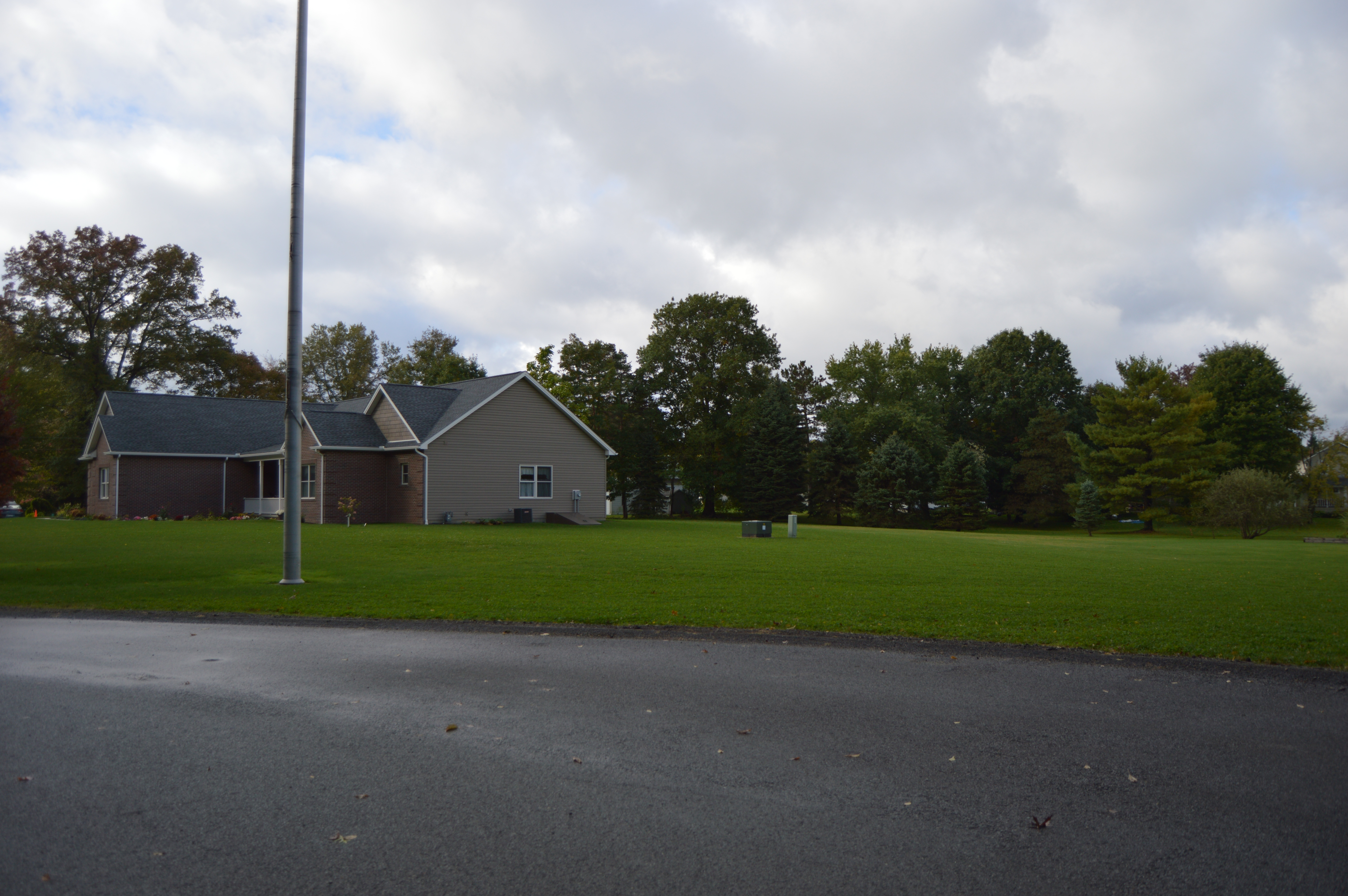 Empty land on the western side of the northern end of Madison Street in Grove City, Pennsylvania, United States. This was formerly the site of the Wendell August Forge, which has been listed on the National Register of Historic Places; although destroyed by fire in 2010, it has not yet been removed from the Register.